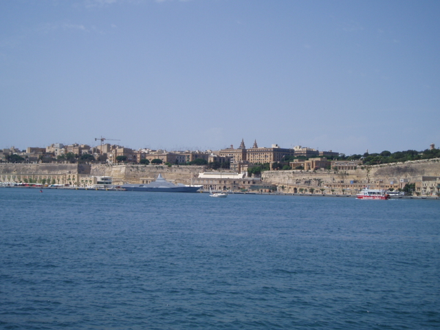 View of Floriana (not Valletta) from Fort St Angelo, Vittoriosa